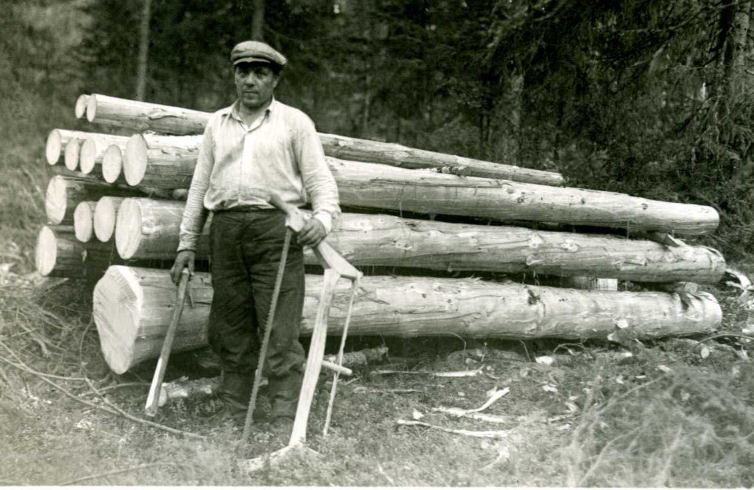 Finnish lumberjack of Yhtyneet Paperitehtaa in 1944